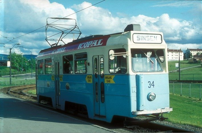 "Chicken" tram of the Oslo Tramway.